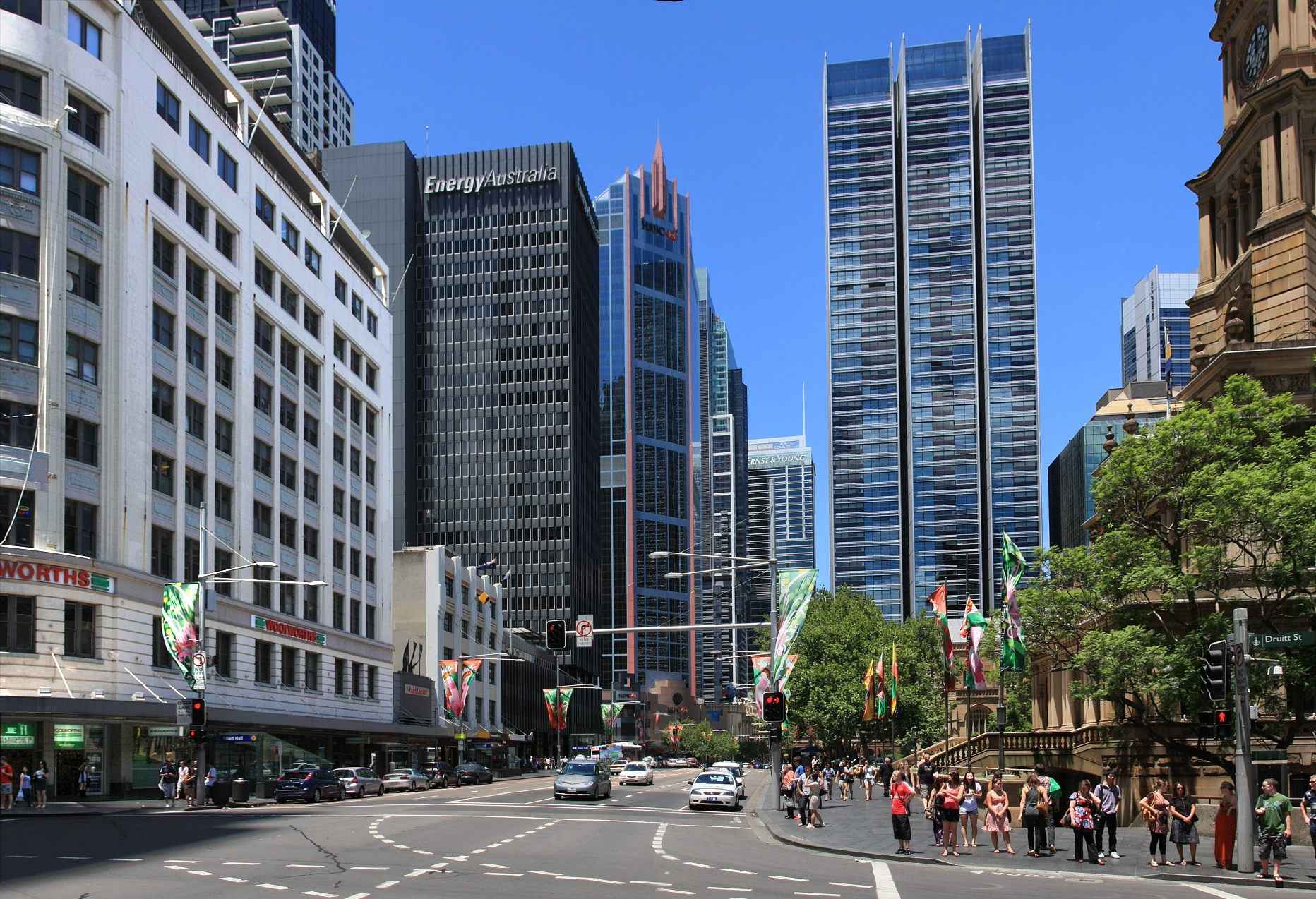 George Street Sydney with the town hall on the right